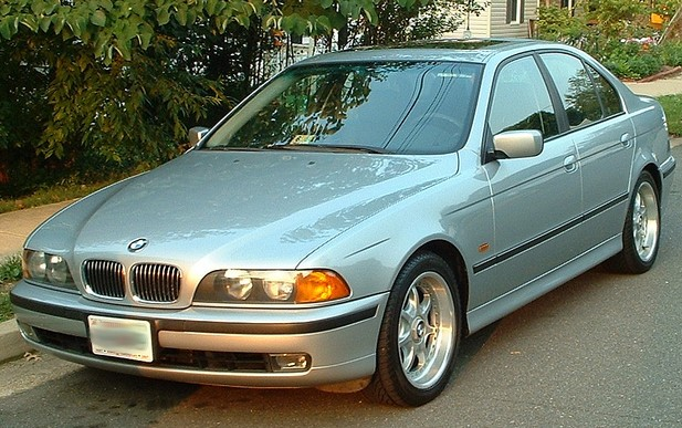 1998 BMW E39 540i Executive Sport Edition with "100% Options".